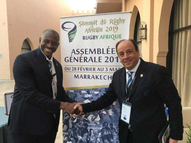 image of handshake